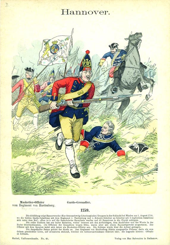 Hannover. Musketier-Offizier vom Regiment von Hardenberg. Garde-Grenadier. 1759